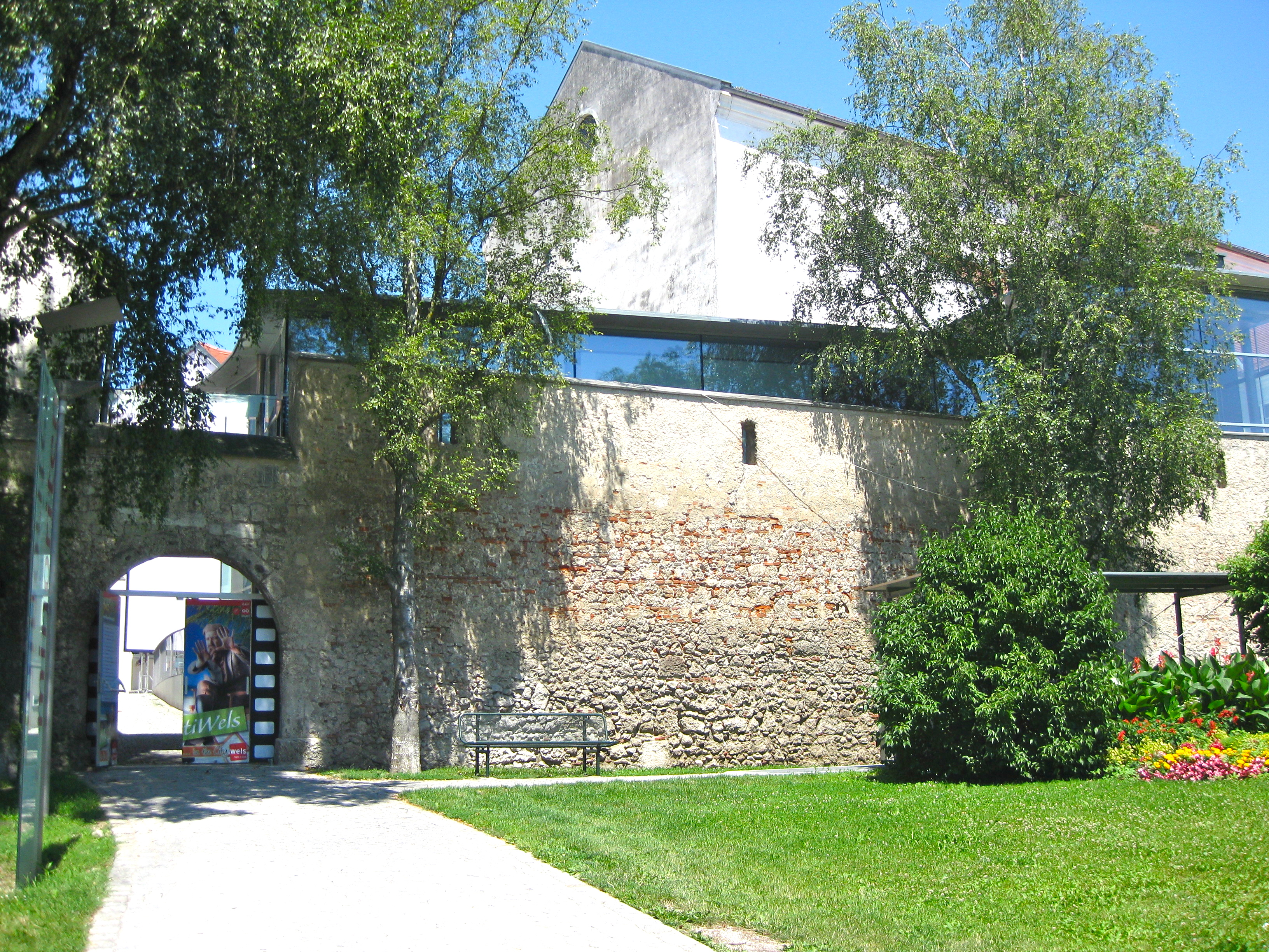 Stadtmauer (Wels). Showing the Roman wall with salvaged Roman bricks above and capped by the Medieval city wall.